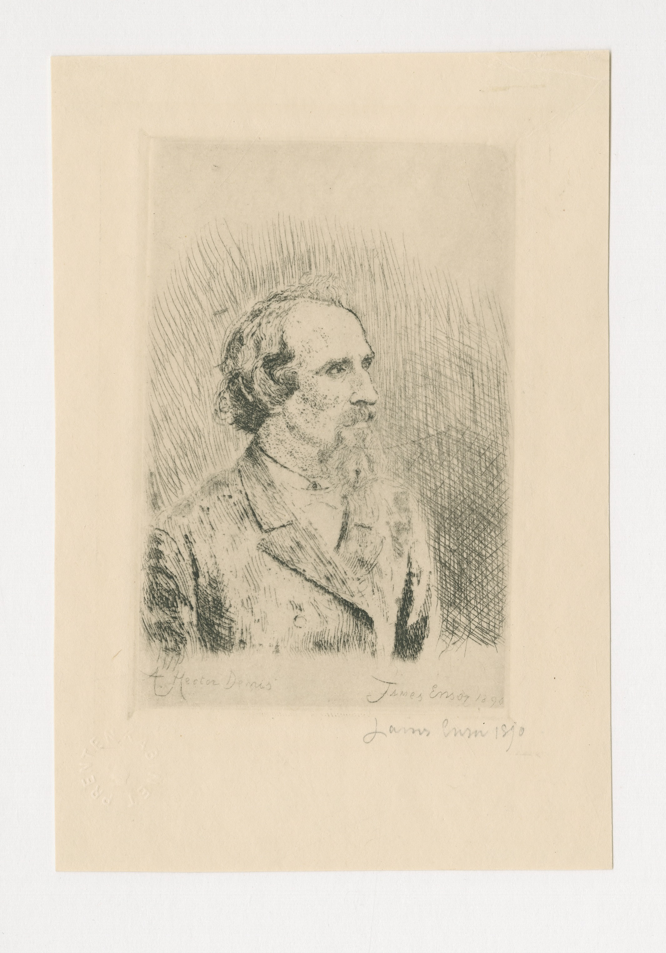 Portrait D'Hector Denis (James Ensor, 1890); collection: Museum Plantin-Moretus